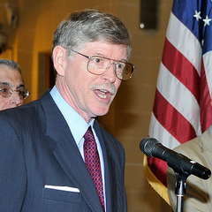 Amb. Tim Carney, Clinton-Bush Haiti Fund executive vice president, speaks at an Organization of American States event July 12, 2011